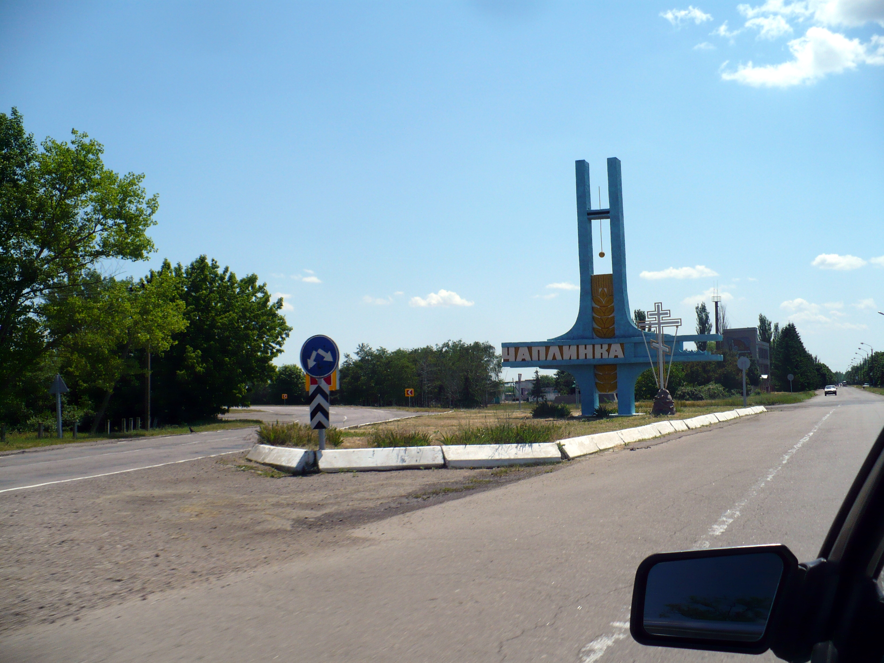 Sign at the entrance to Chaplynka, Kherson Oblast, Ukraine